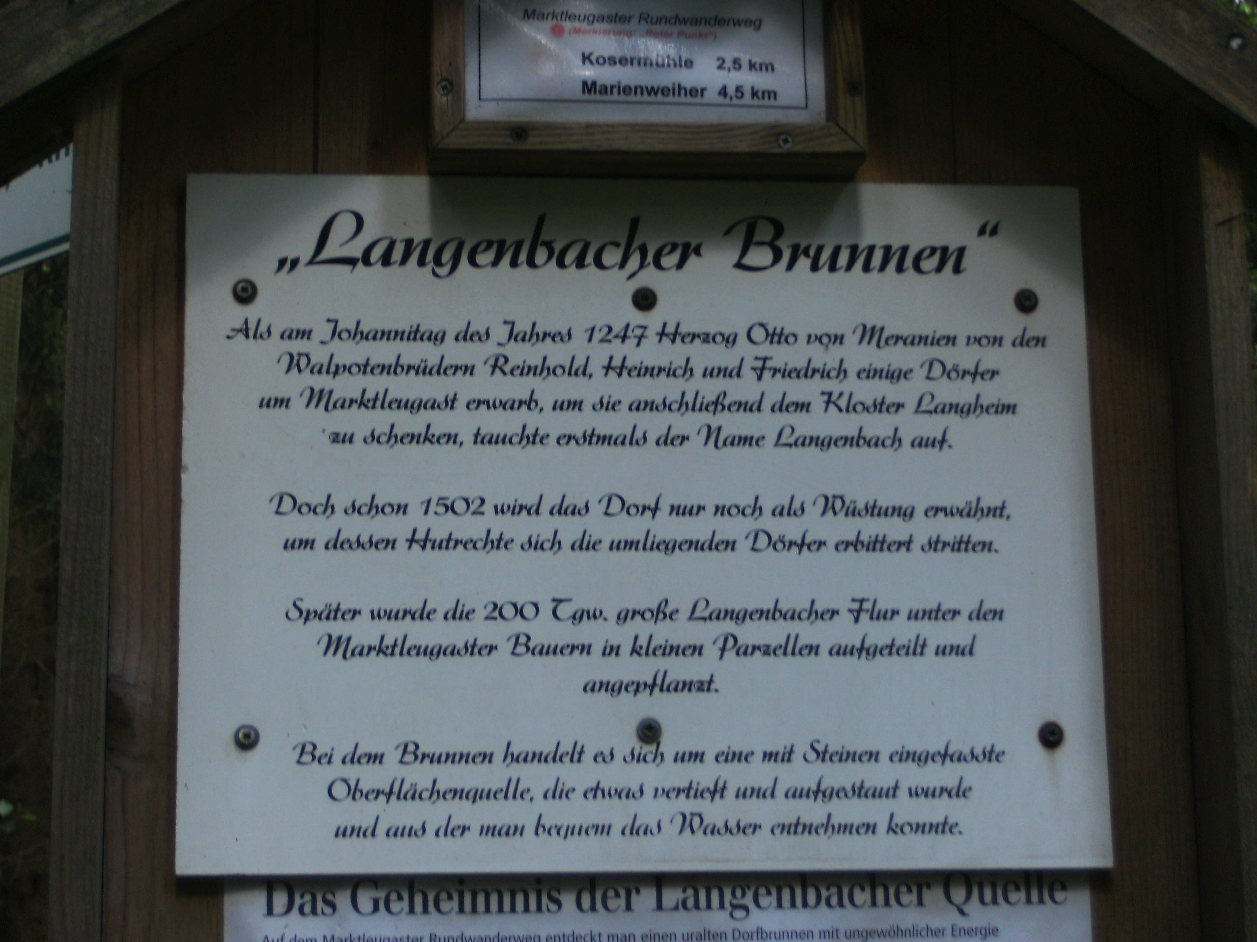 Fountain of Langenbach